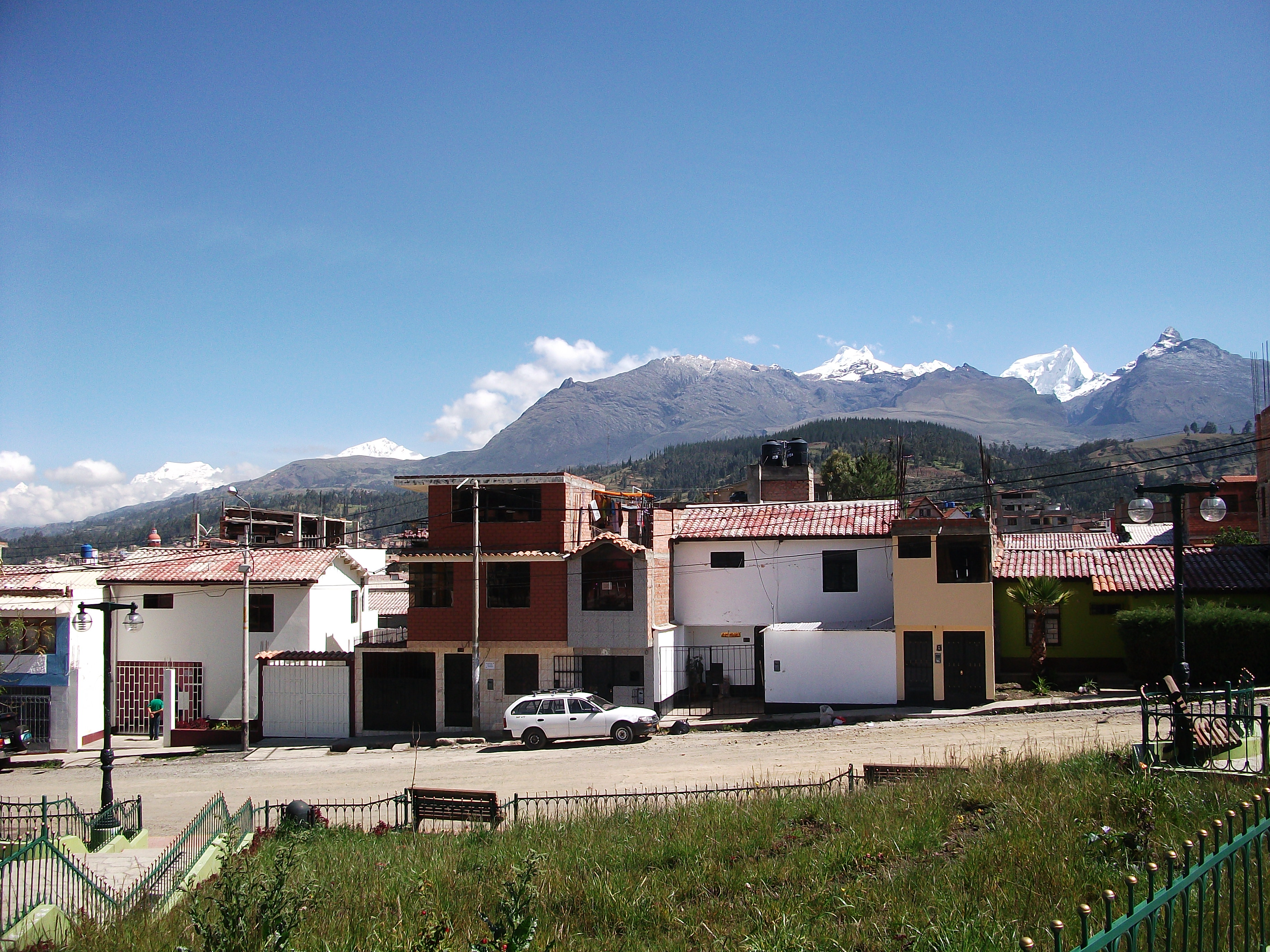 Barrio de La Soledad